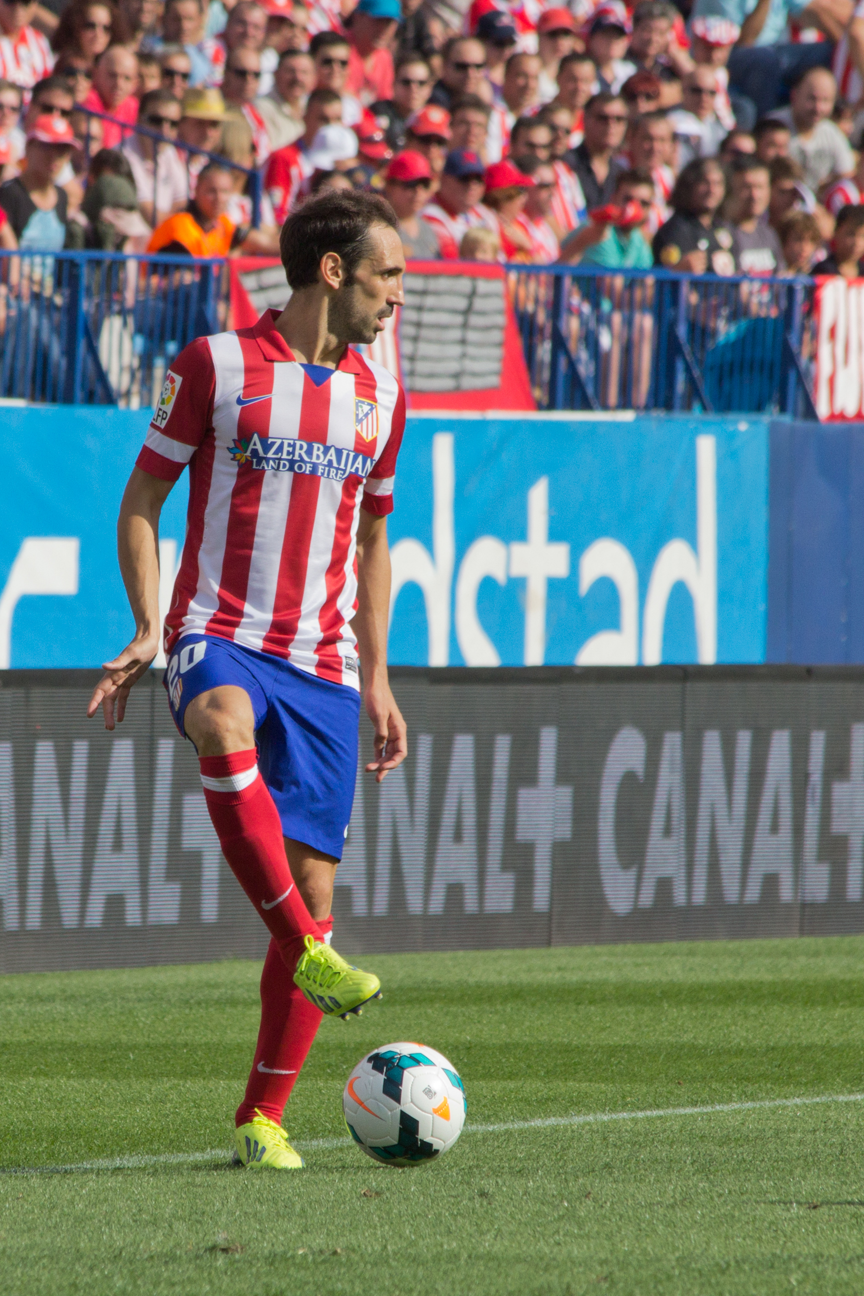 Juanfran Torres, footballer of Atlético de Madrid.